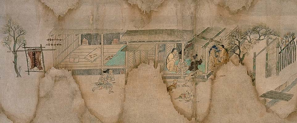 The Legendary Origins of Kokawadera (紙本著色粉河寺縁起, shihon chakushoku Kokawadera engi). Handscroll (Emakimono), 30.8 cm、x 1984.2 cm. Color on paper. Located at Kokawadera (粉河寺), Kinokawa, Wakayama.